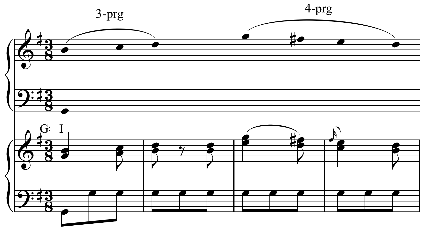 Linear progression in Mozart Piano Sonata in G major. Created by Hyacinth (talk) 22:03, 25 May 2010 using Sibelius 5.